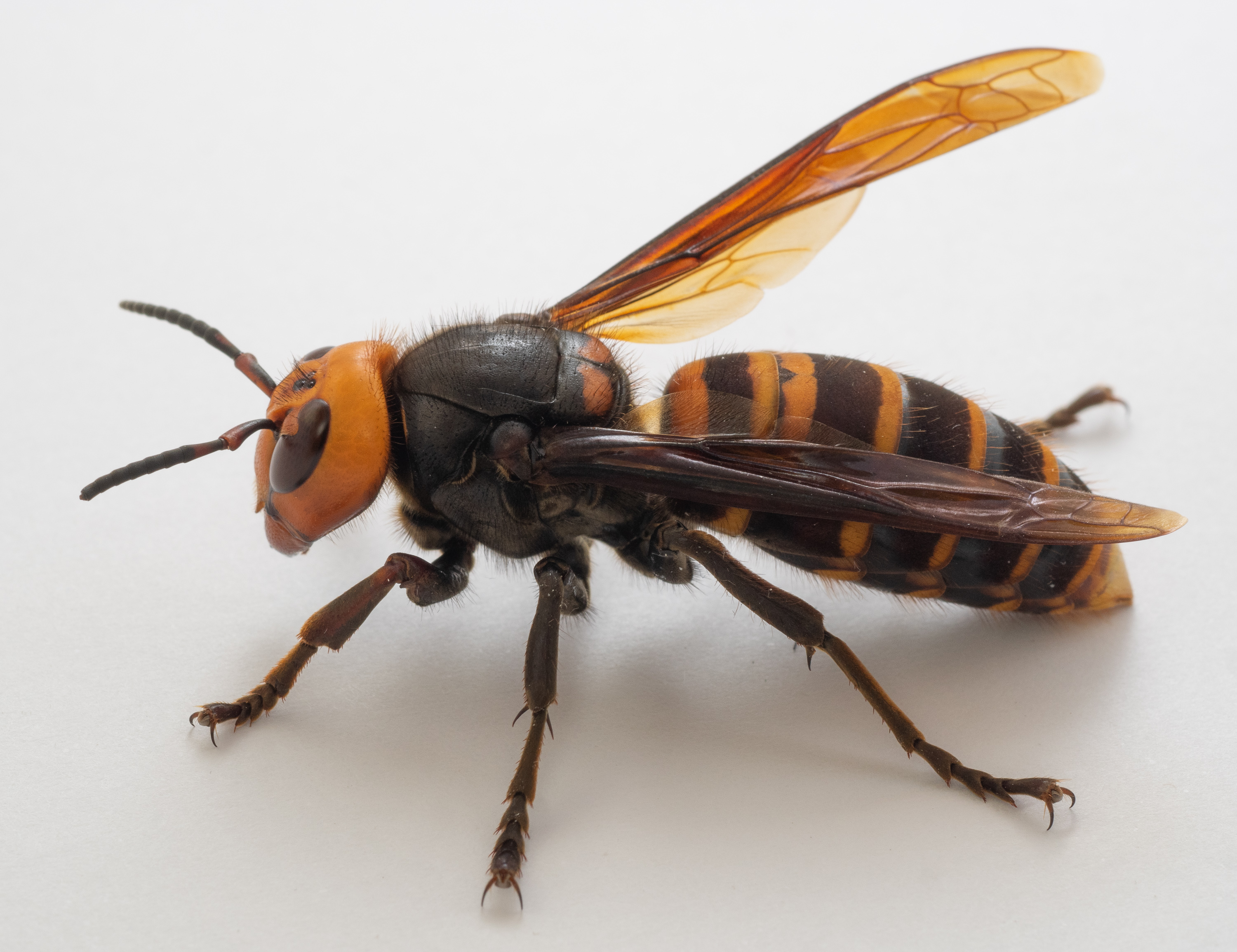 Queen of Japanese giant hornet, Vespa mandarinia japonica